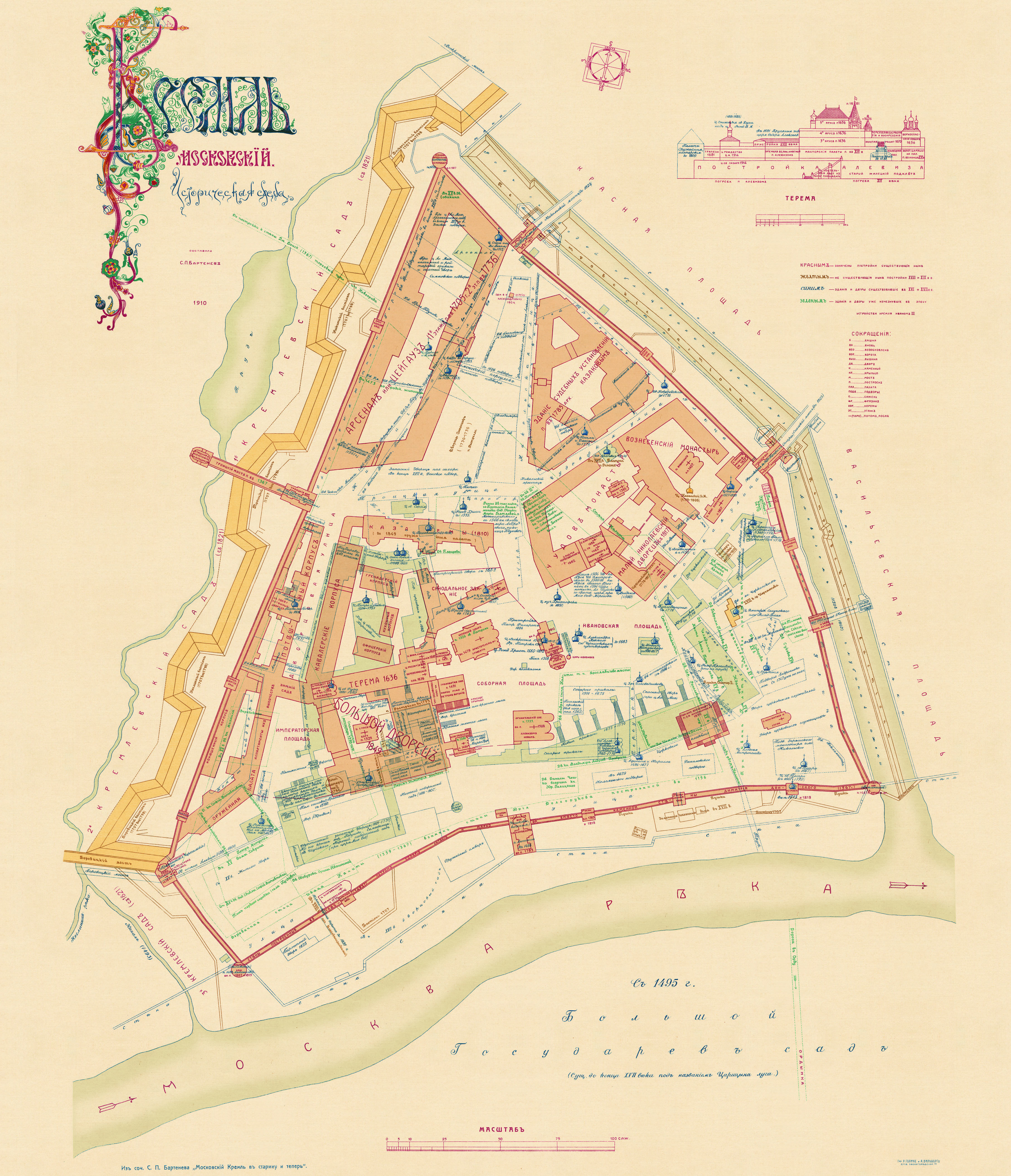 An overlay map of Moscow Kremlin from the book "Московский Кремль в старину и теперь" by Бартенев С.П. shows Moscow Kremlin at the time of the publication (turn of the 20th century) superimposed over the older demolished buildings.